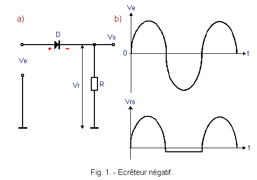 Ecreteur_negatif